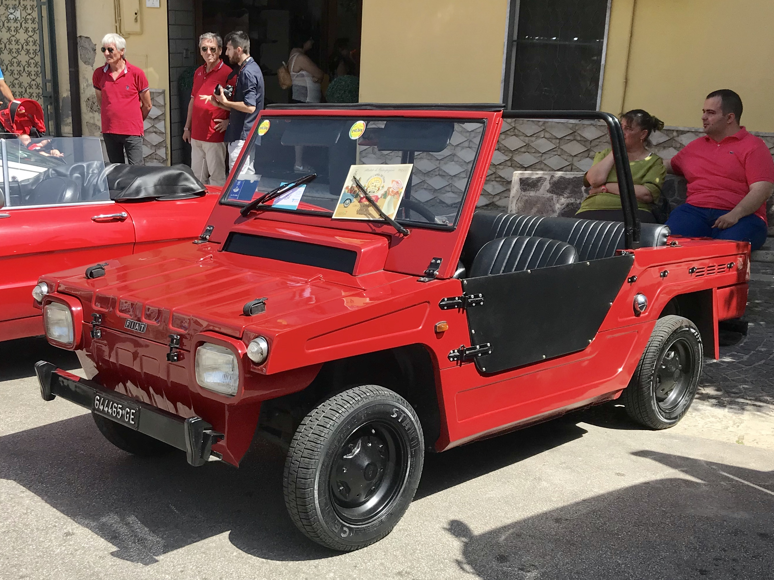 1976 Fiat 126 Savio Jungla